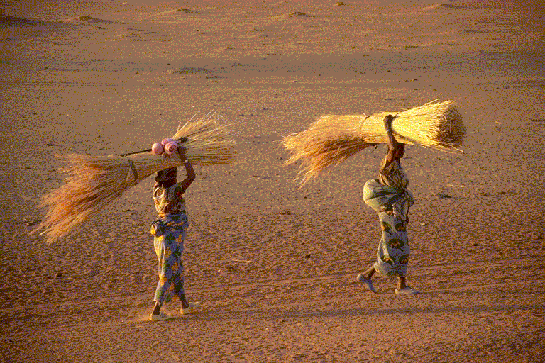 Women carrying straw. Burkina Faso. Photo Toni Linder, Evilard, Switzerland.